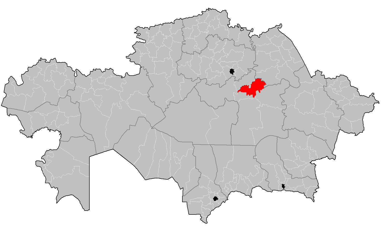 Map of the rayons of Kazakhstan. Created by Rarelibra 16:49, 3 August 2007 (UTC) for public domain use, using MapInfo Professional v8.5 and various mapping resources.